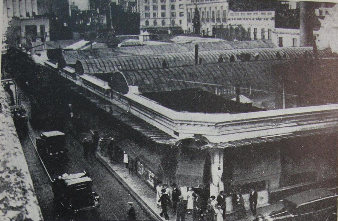 View of former "Mercado del Plata (Del Plata Market)" from the corner of Cangallo (today Teniente General Perón) and Carlos Pellegrini streets of Buenos Aires. The photo was taken in 1948, shortly before being demolished to built the current Del Plata Building.